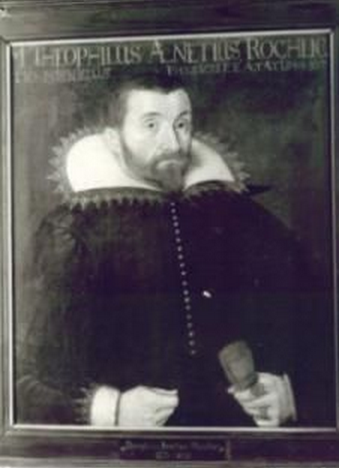 Theophilus Ænetius (1574-1631), Physikalisch-Astronomische Fakultät, Universität Jena